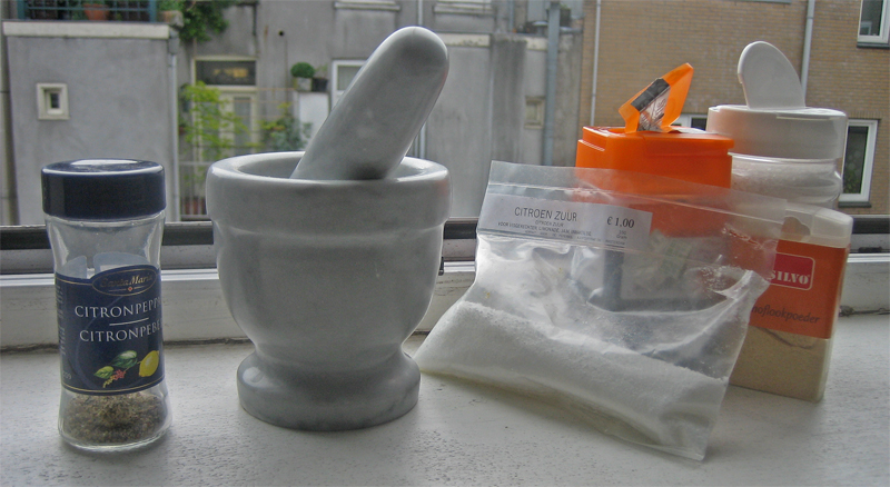 Preparing lemon pepper using salt, black pepper, garlic powder and powdered citric acid.